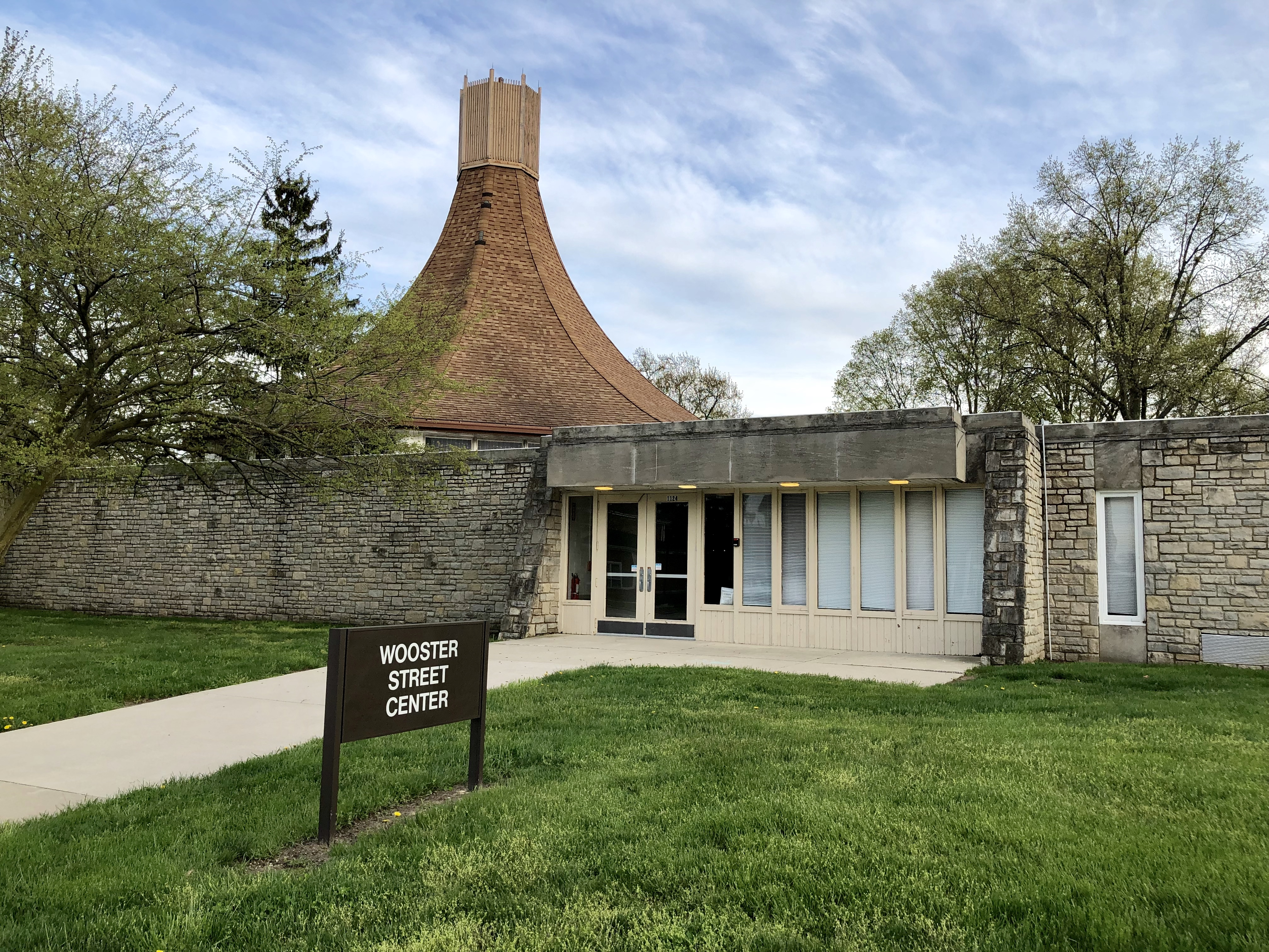 The Wooster Street Center. A former church building. As of 2019 it houses a small performance venue and law office for the University.